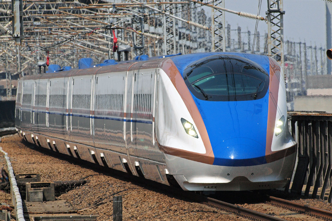 JR East E7 series shinkansen set F4 approaching Omiya Station on the Asama 522 service to Tokyo